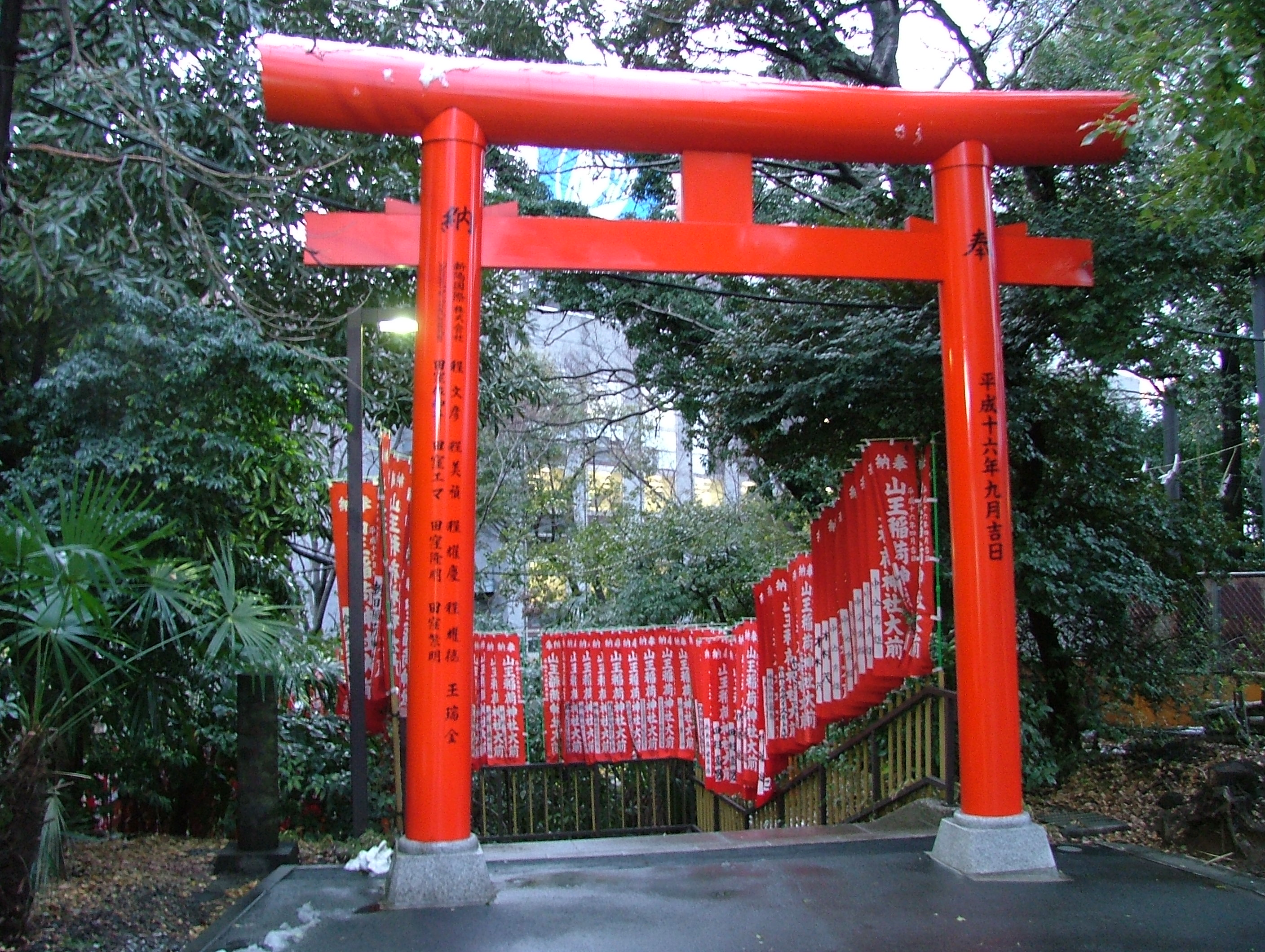 A torii is a traditional Japanese gate commonly found at the entry to a Shinto shrine, although it can be found at Buddhist temples as well. The basic structure of a torii is two columns called that are topped with a horizontal rail called the kasagi. Slightly below the top rail is a second horizontal rail called the nuki. Torii are traditionally made from wood and are frequently painted vermilion.